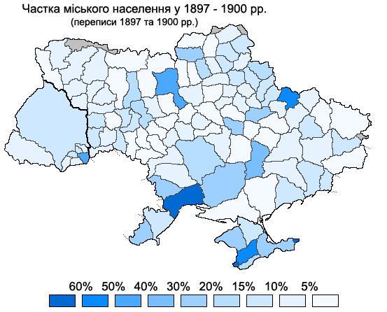 Urbanization in ukrainian parts of Russian and Austro-Hungarian empires in 1897-1900